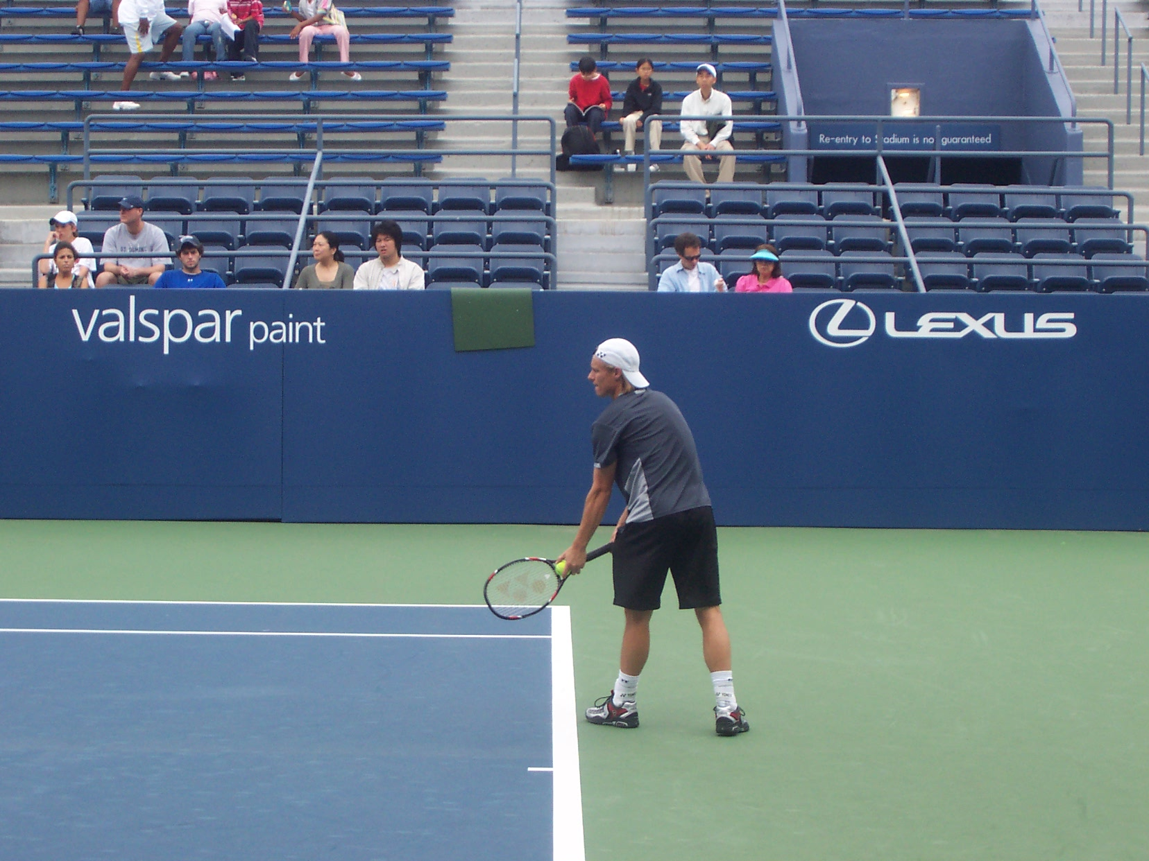 Lleyton Hewitt At The 2007 US Open